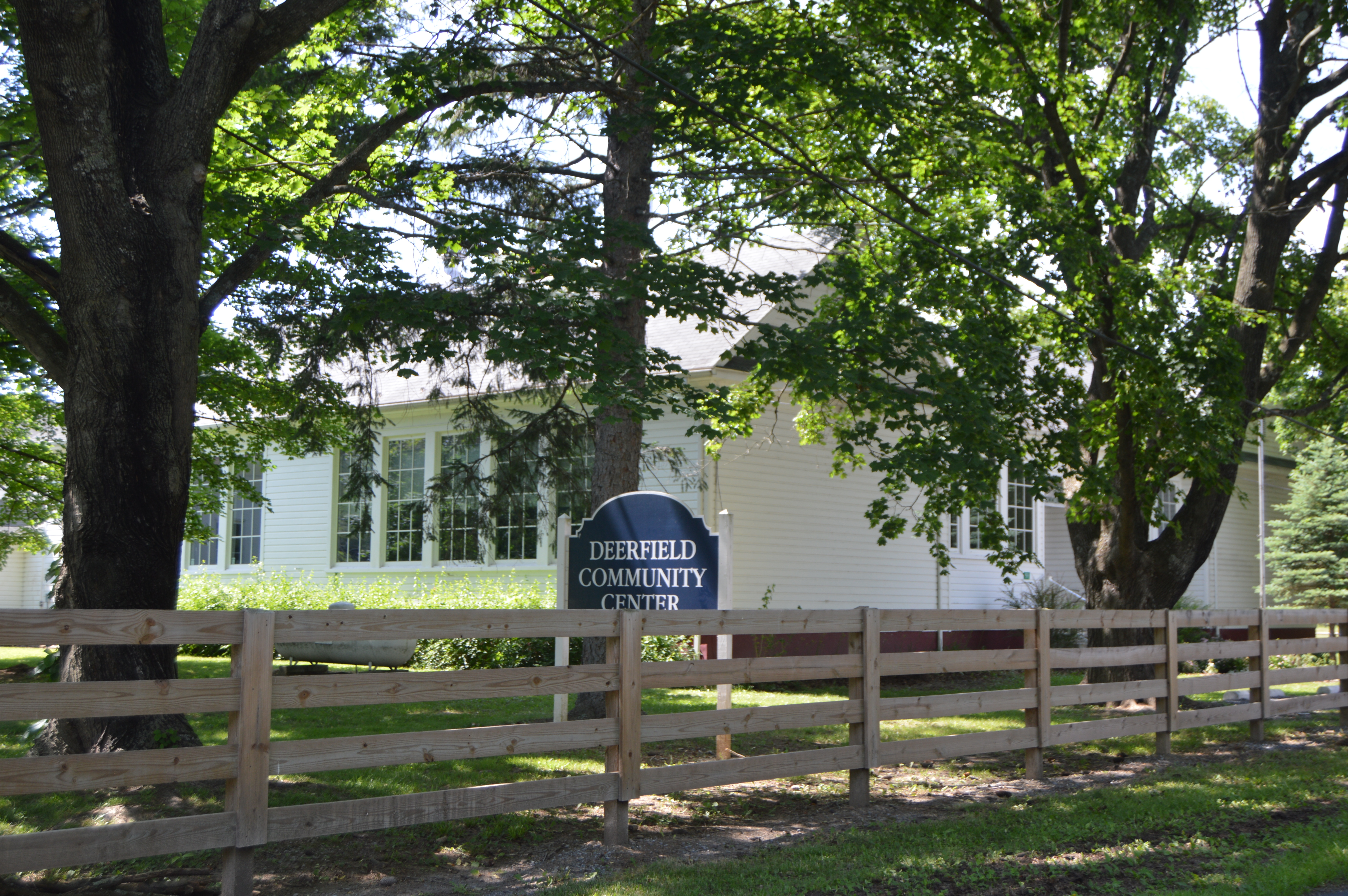 Front and southwestern side of the former Deerfield School (now apartments), located on Marble Valley Road at Deerfield in Augusta County, Virginia, United States. Built in 1937, it is listed on the National Register of Historic Places.